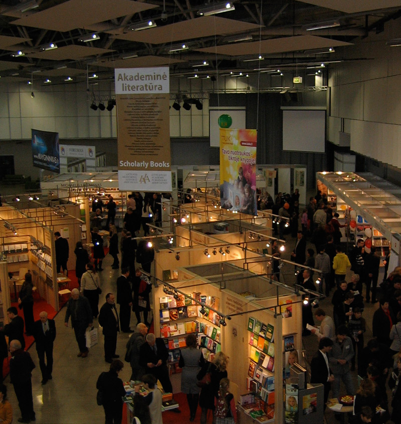 Fair of book, Vilnius, 2009, Litexpo